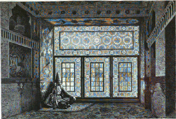 Salon of an Azerbaijani house in Shusha